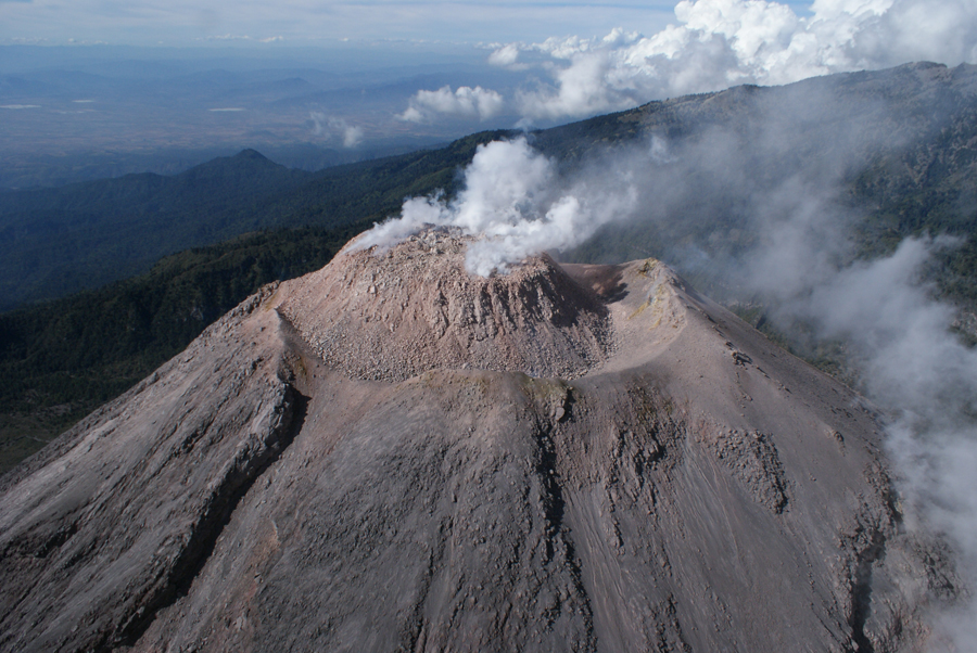 Volcan de Colima aerial view, November 2009